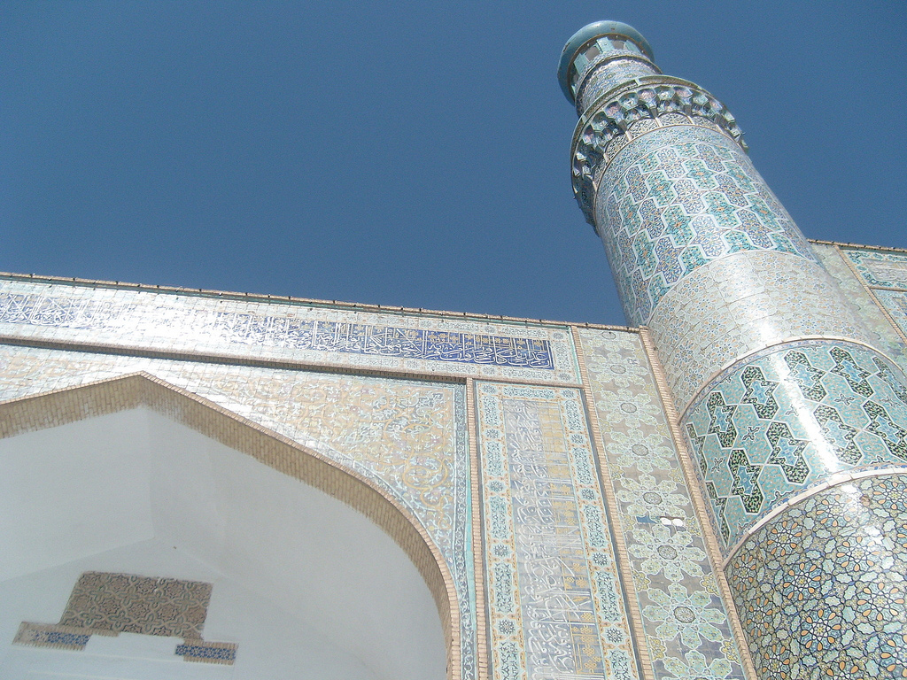 Herat's Friday Mosque